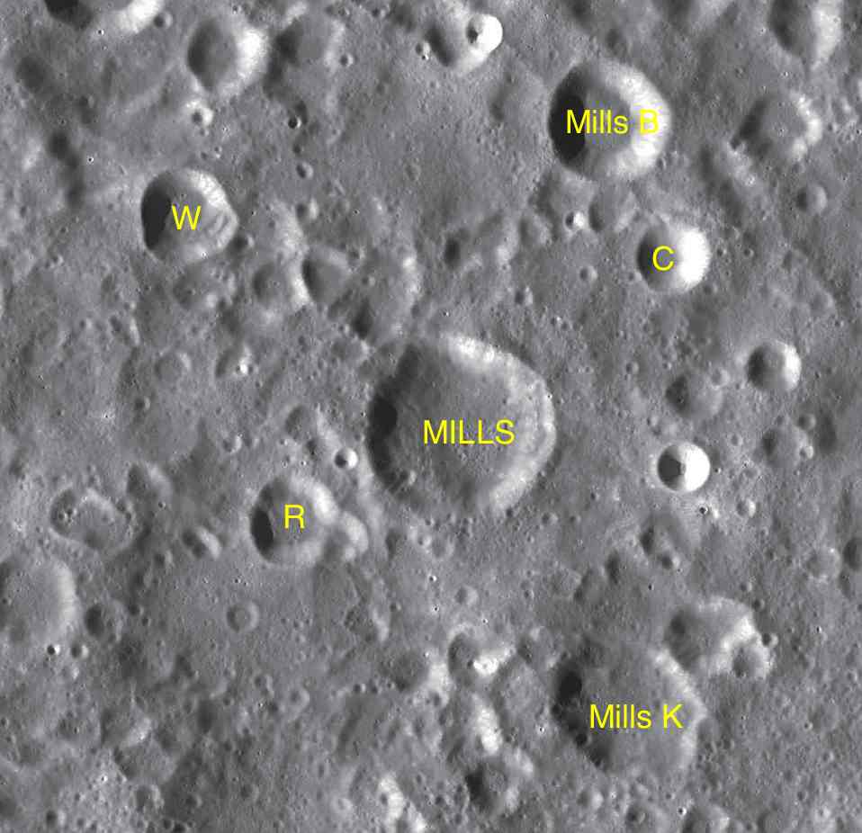 Parts of the chart LAC-67 used for the presentation